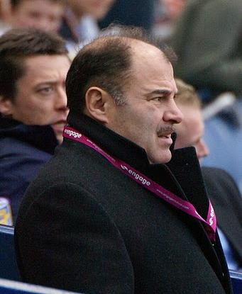 Photo of Bernard Guasch attending a match at Murrayfield (Magic Weekend 20090